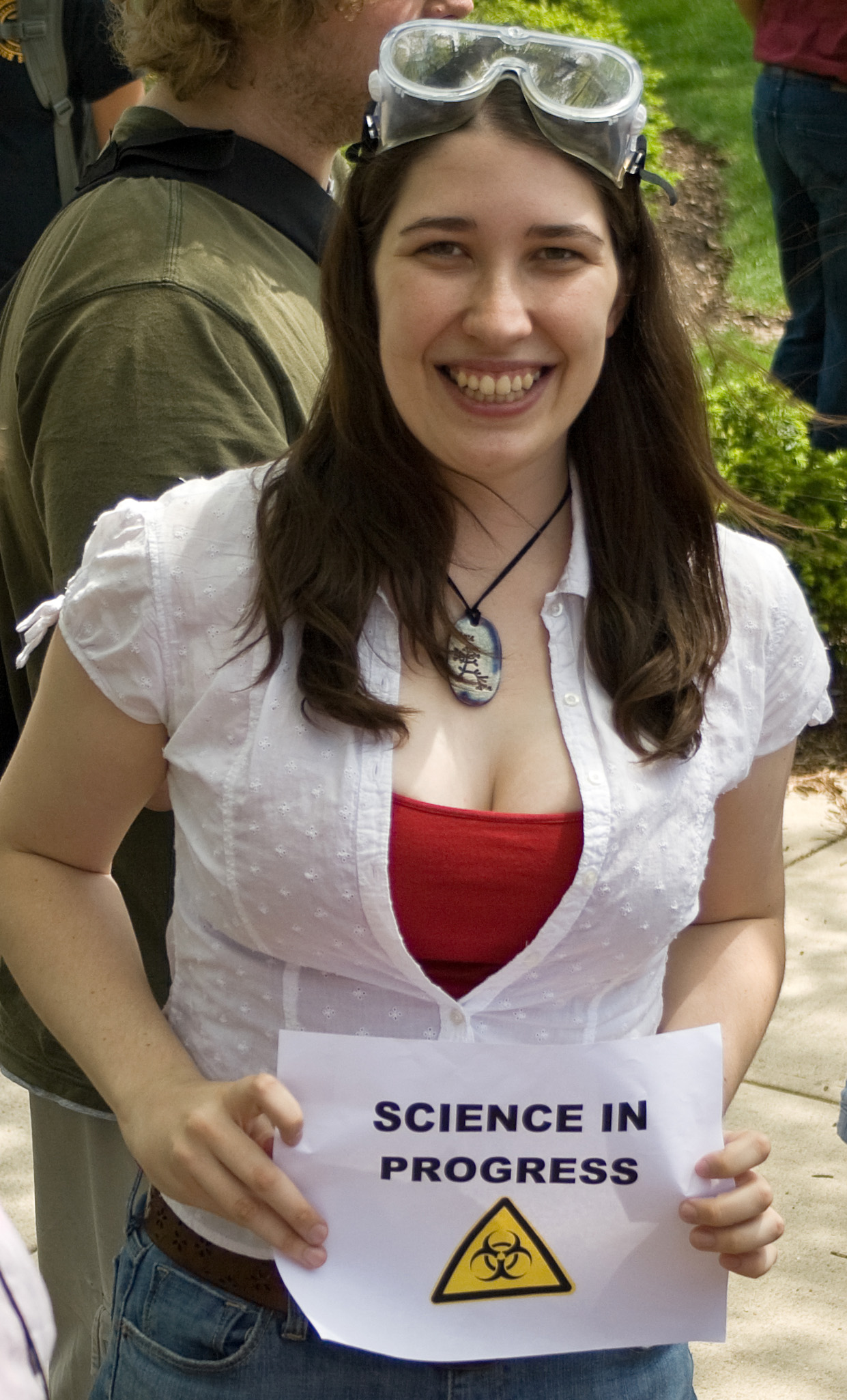 Derivative version of File:Jen McCreight Boobquake 2010.jpg that has been cropped.